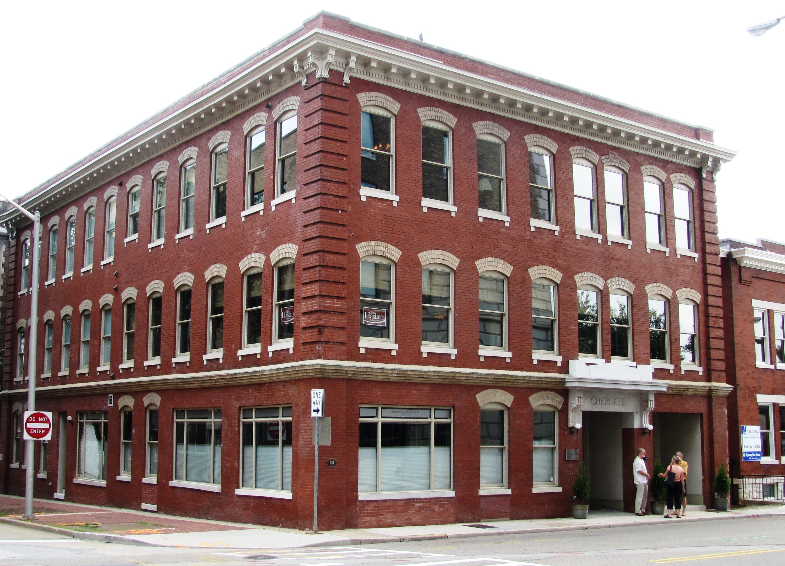 The Cherokee Building (404 Church Avenue) in Knoxville, Tennessee, USA. Built circa 1895, this building now houses residential lofts, and is a contributing property within the NRHP-listed South Market Historic District.